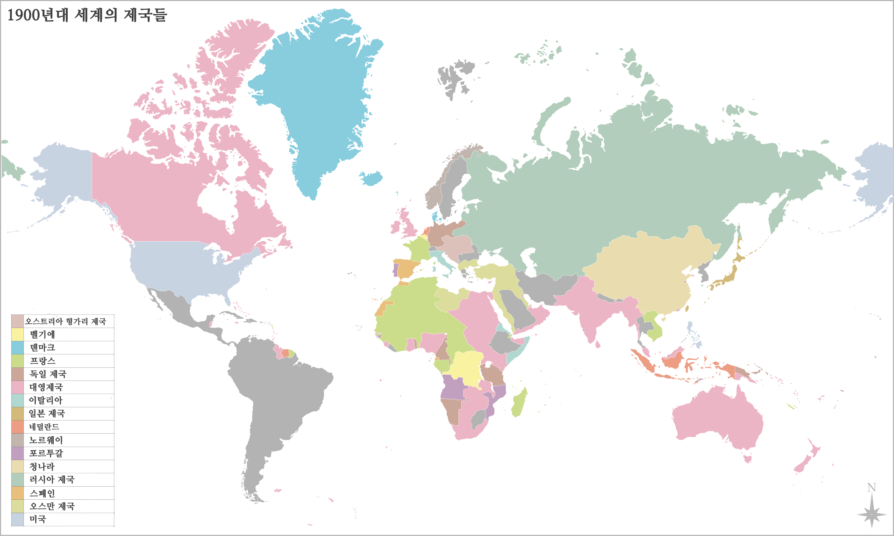 Map of the worlds empires, during 1900.